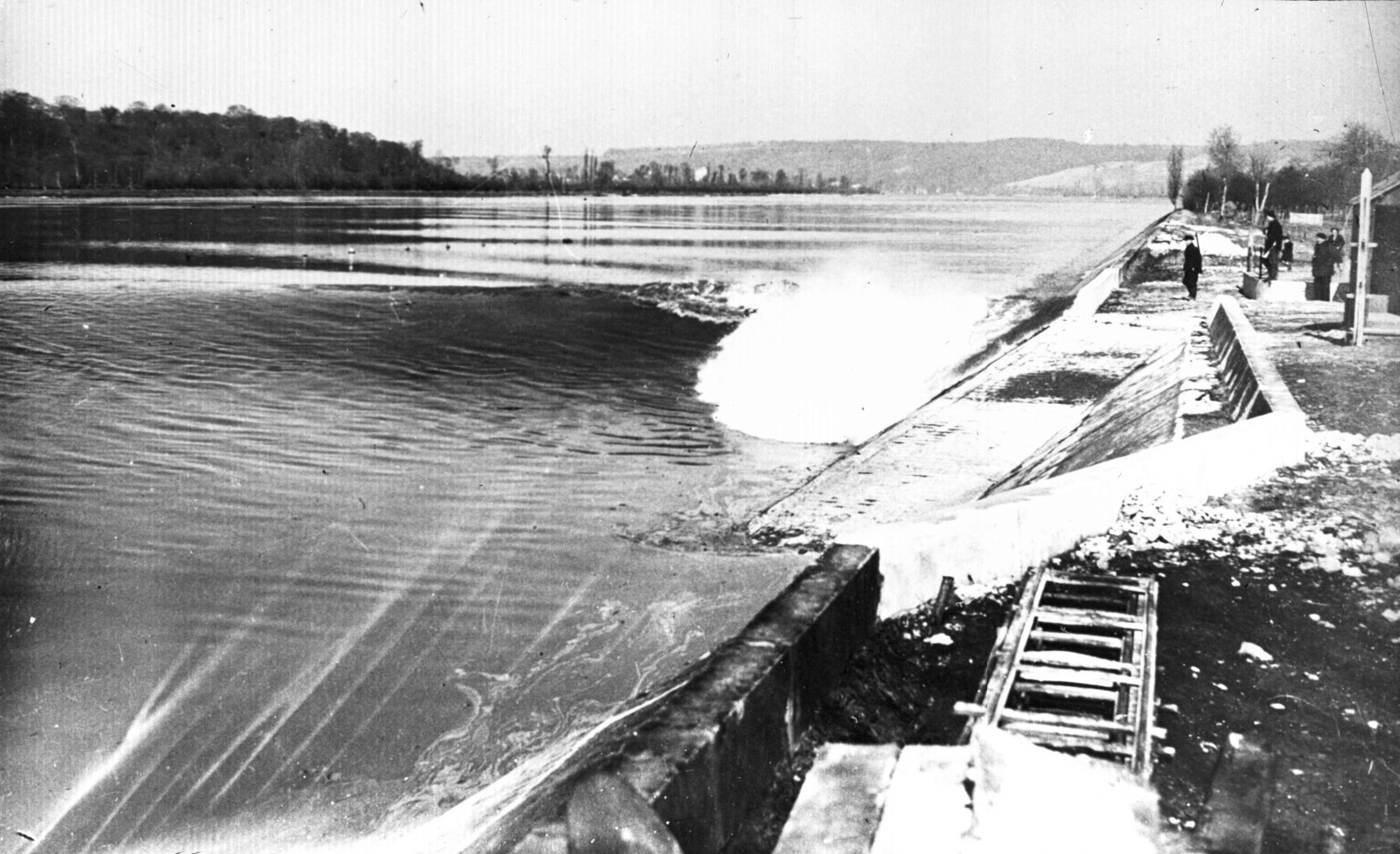 Bore on the Seine river near Caudebec en Caux, some 55 km from the river mouth. This bore does not exist any more because of dredging in the Seine river